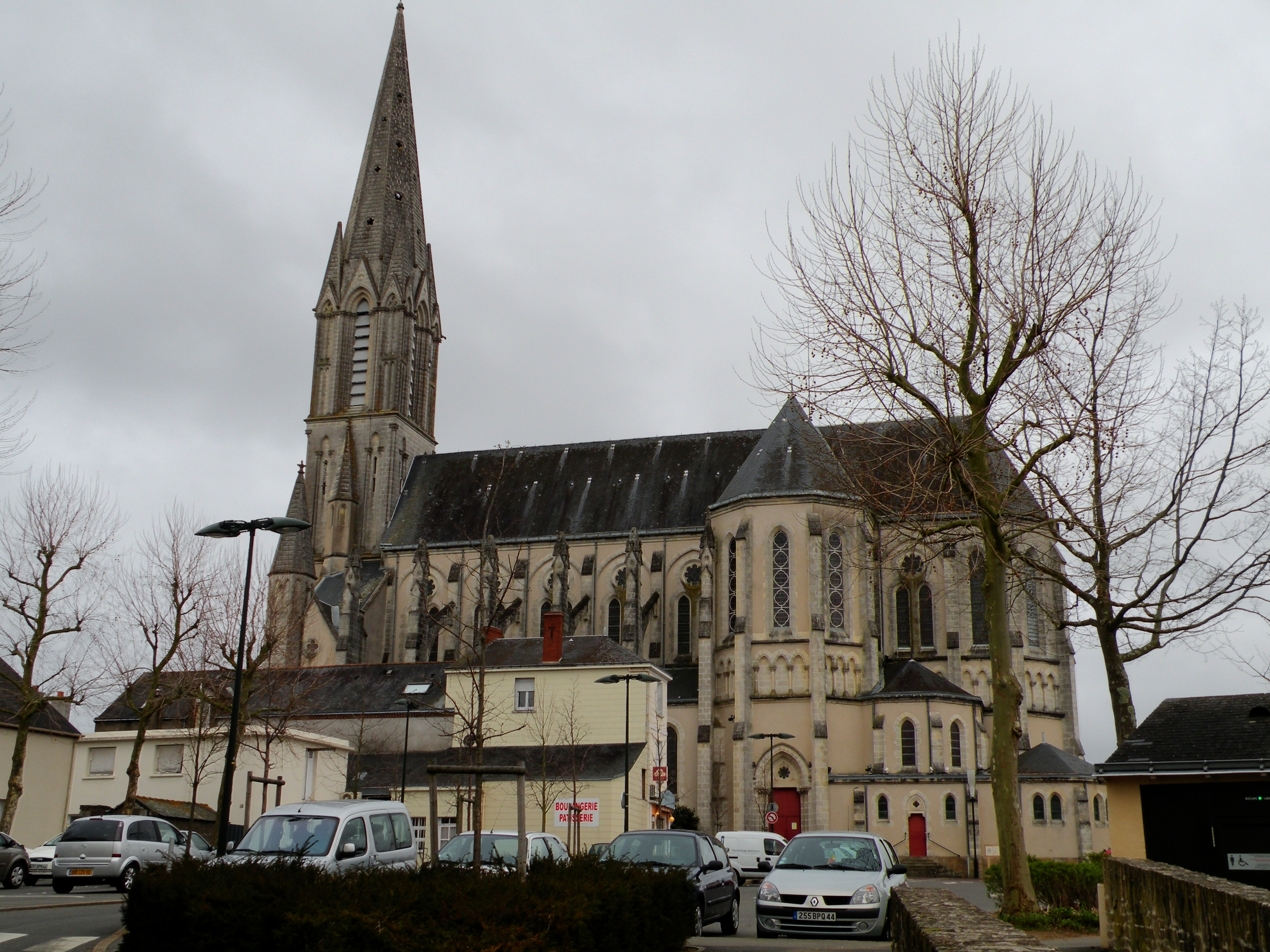 Church of Carquefou